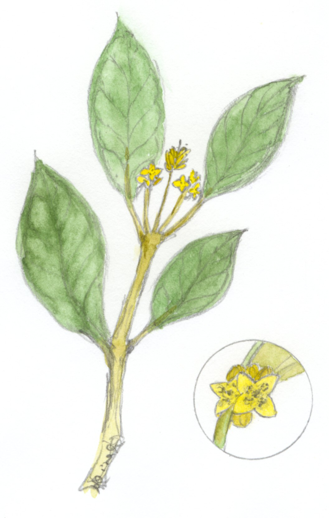 Watercolour of Avicennia marina